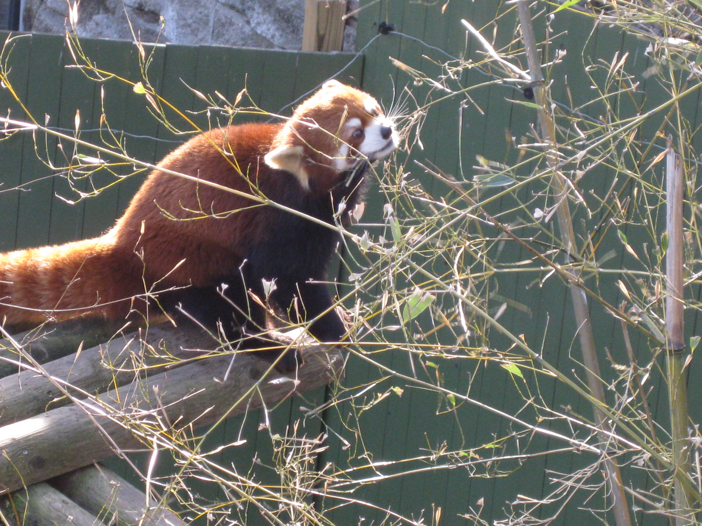 Red panda gnawing stem of the tree at Roger Williams Zoo, Providence, RI, USA